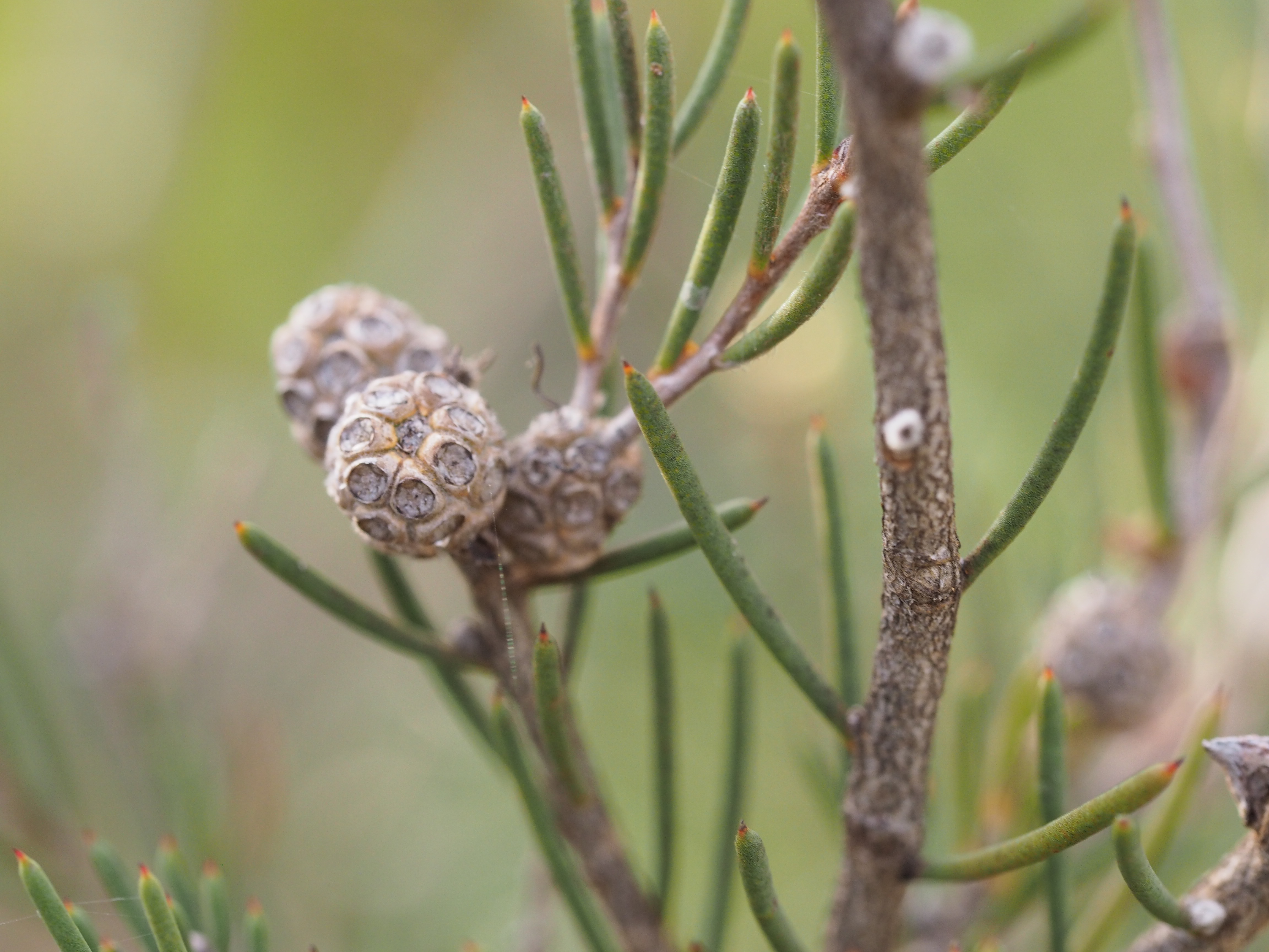 Melaleuca thapsina growing in a swamp on Coxall Road near Munglinup